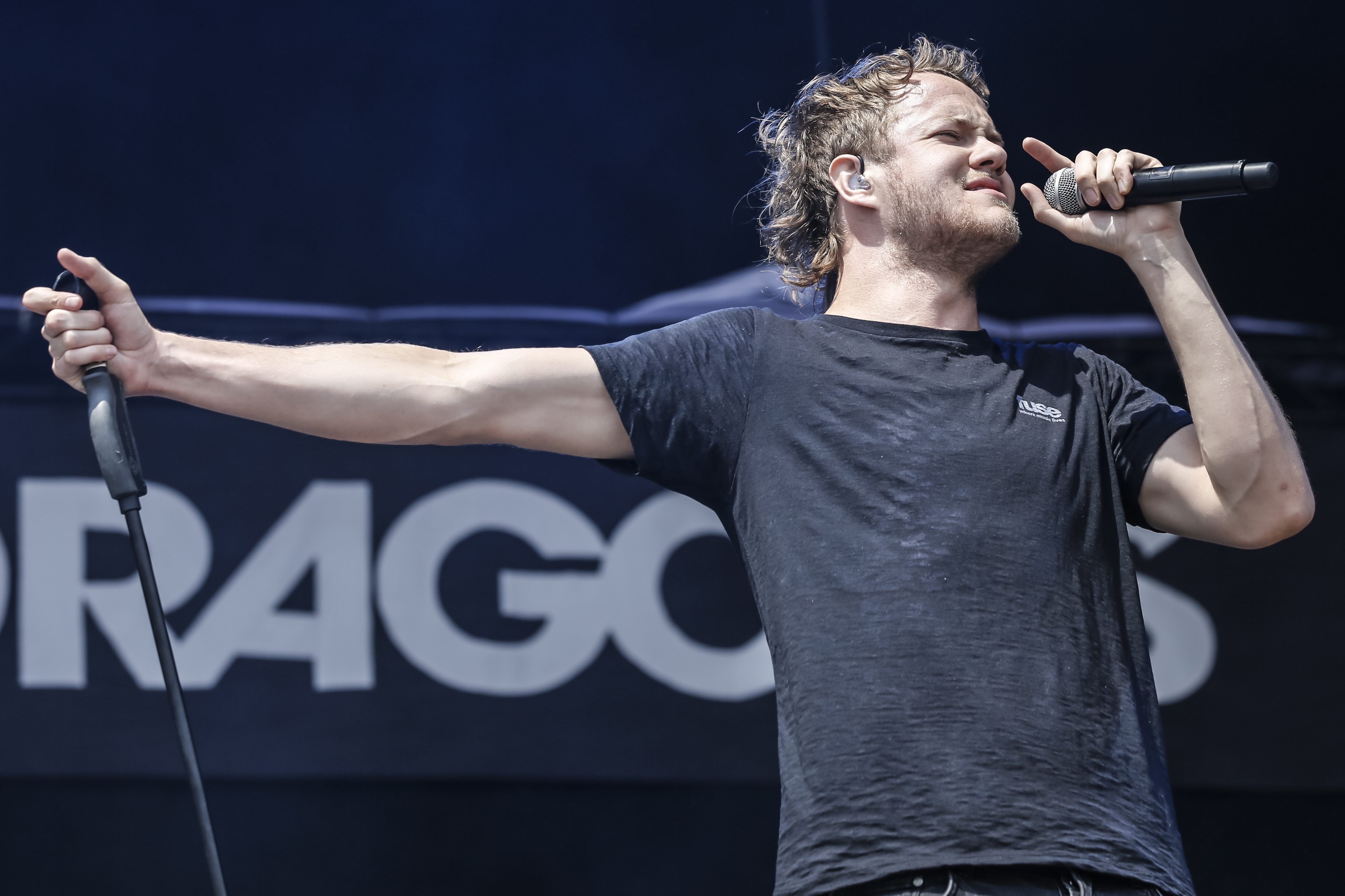 Dan Reynolds of Imagine Dragons at Rock im Park 2013 in Nuremberg, Germany